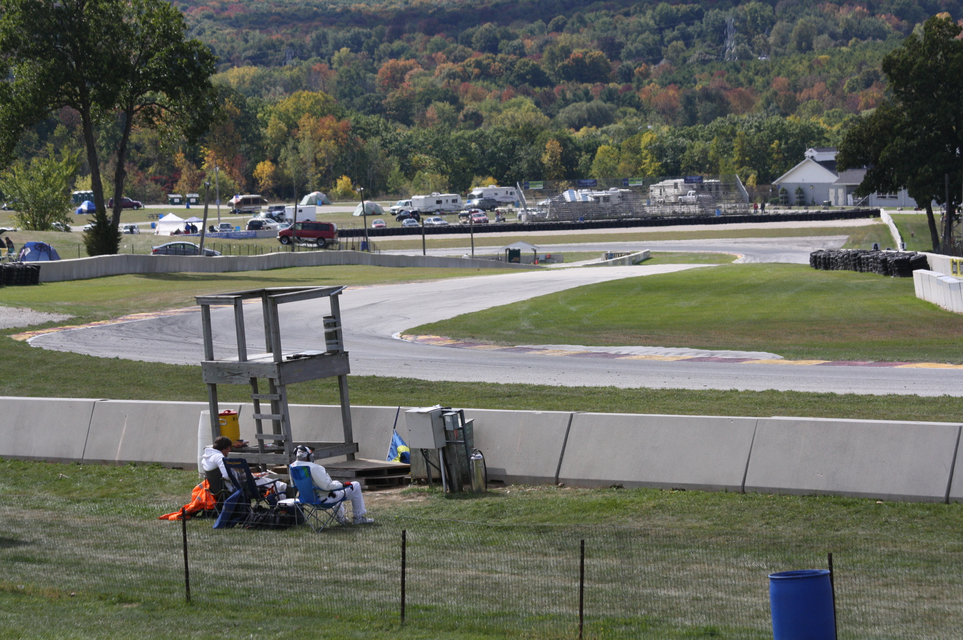 Turns 7 (foreground) and 8 (background) at Road America.